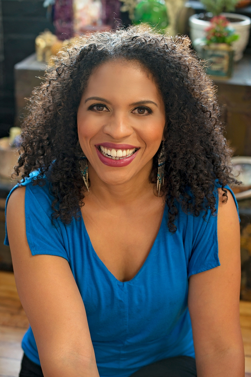 Picture of Alika Hope, taken by Phyllis Meredith in July 2016.